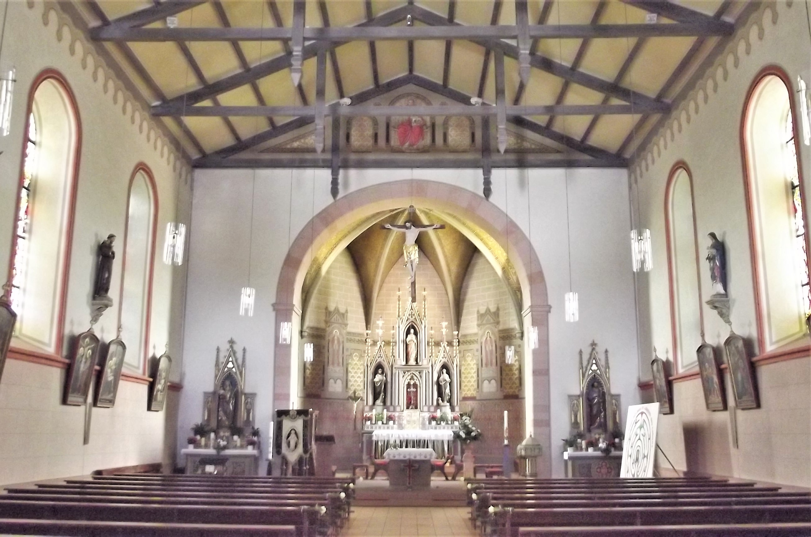 Interior of the roman catholic church in Konfeld, Saarland